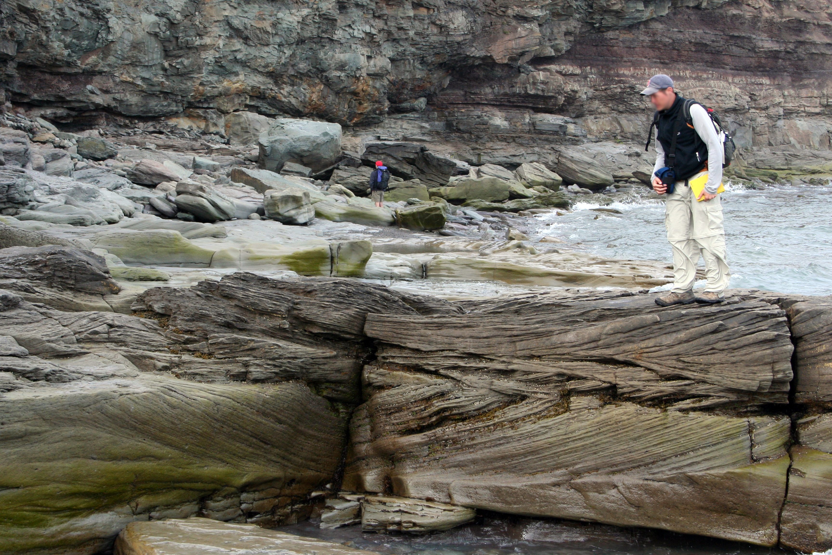 Trough cross-bedding in the Waddens Cove Formation (Pennsylvanian), Sydney Basin, Nova Scotia. View is roughly perpendicular to paleoflow direction.